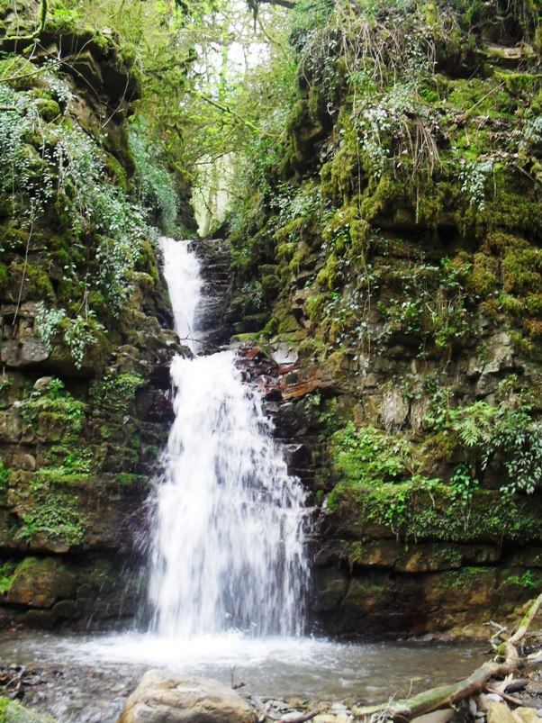 نمایی از آبشارهای کوچک و بزرگ فراوان پره سر (آبشار چراغعلی)